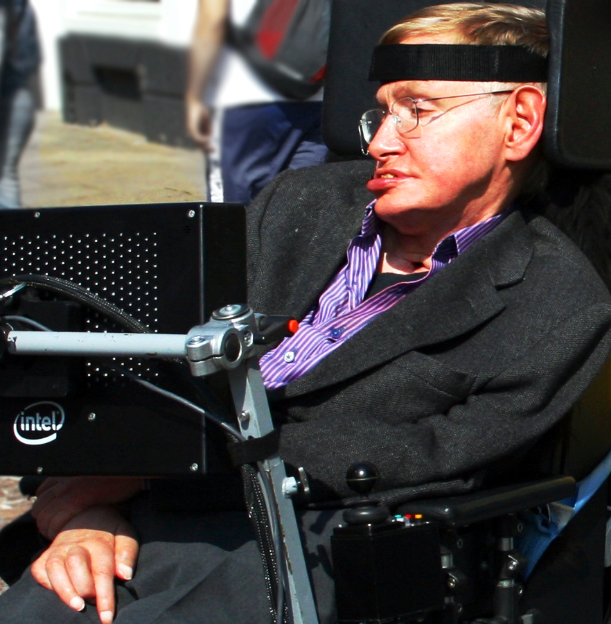 Professor Stephen Hawking in Cambridge, UK. Cropped version of original photo with slight correction of the light so that it renders better in small size